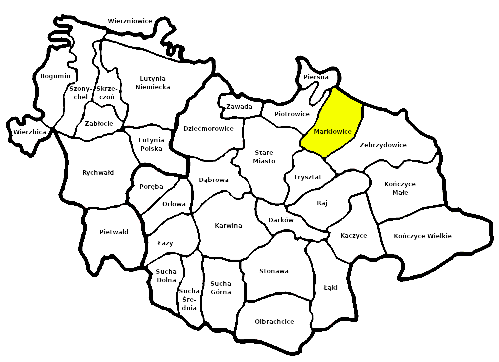 Marklowice municipality in the Freistadt Disctirct of Austrian Silesia